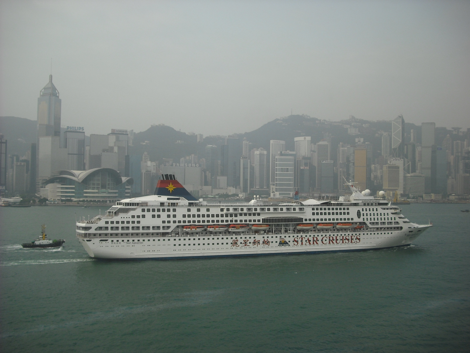 Superstar Aquarius taken from Intercontinental Hong Kong room.